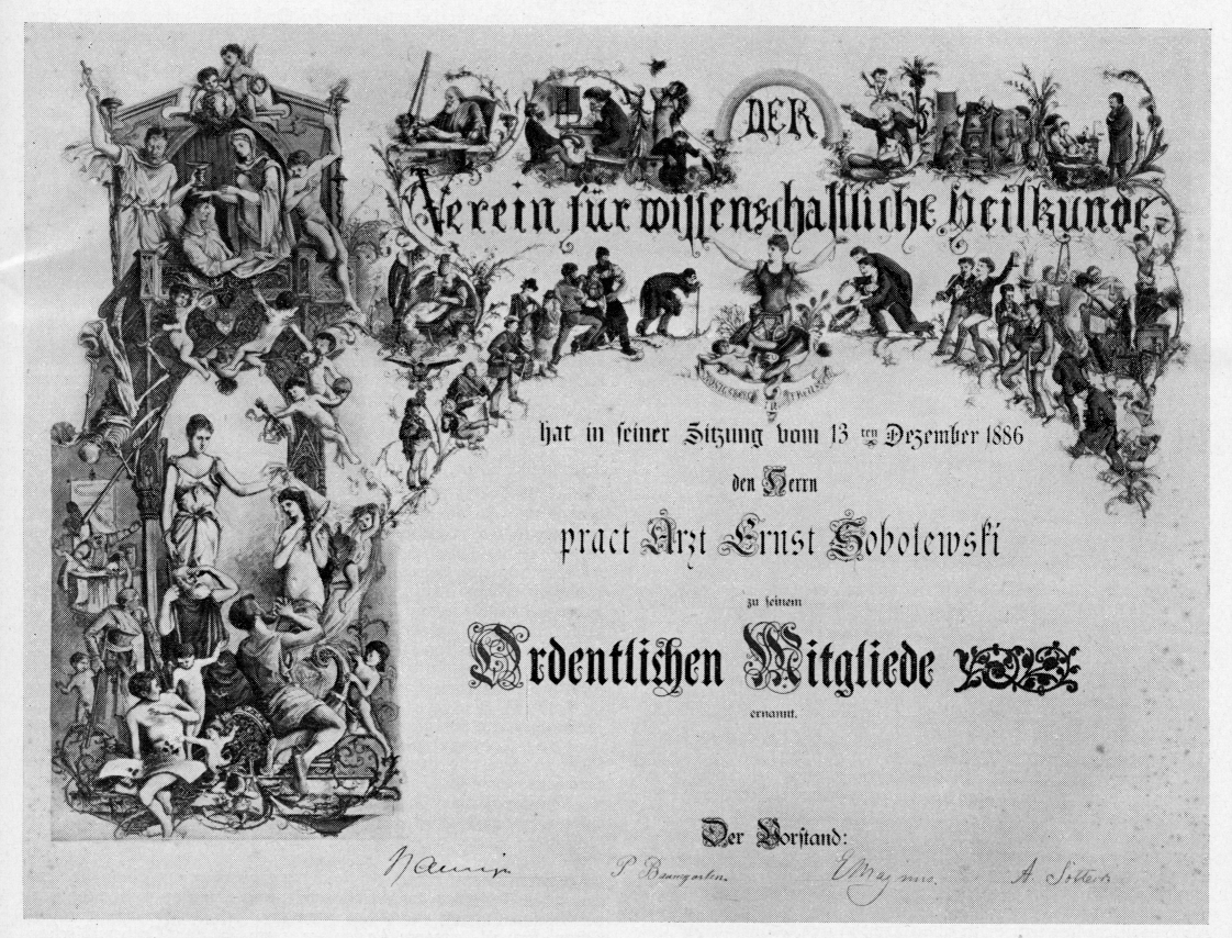 Entrance -Diploma for the "Verein fuer wissenschaftliche Heilkunde", 1850-1950 Koenigsberg/Prussia Founder was Hermann von Helmholtz